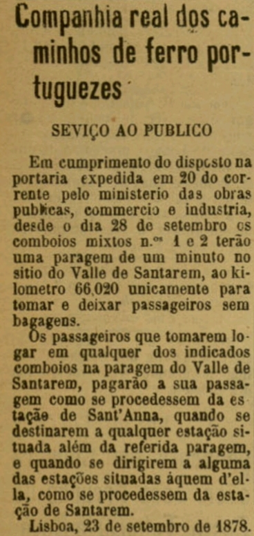 Warning of the Companhia Real dos Caminhos de Ferro Portugueses (Royal Company of the Portuguese Railways), informing the public that some trains would start stopping at Vale de Santarem, in Portugal. This image was published on the Diario Illustrado newspaper No. 1986, of 12th October 1878, and scanned by the Biblioteca Nacional de Portugal.